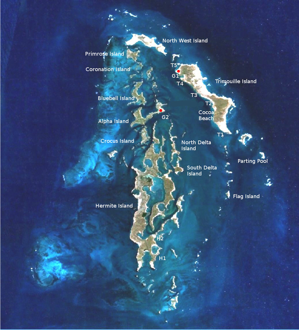 Map of the Monte Bello Islands, indicating sites for Operation Mosaic nuclear test (G1 and G2). Made from File:Monte Bello Islands Map.jpg, which in turn was made from File:Montebello Islands-NASA.jpg and map in "A History of British Atomic Tests in Australia", p. 83